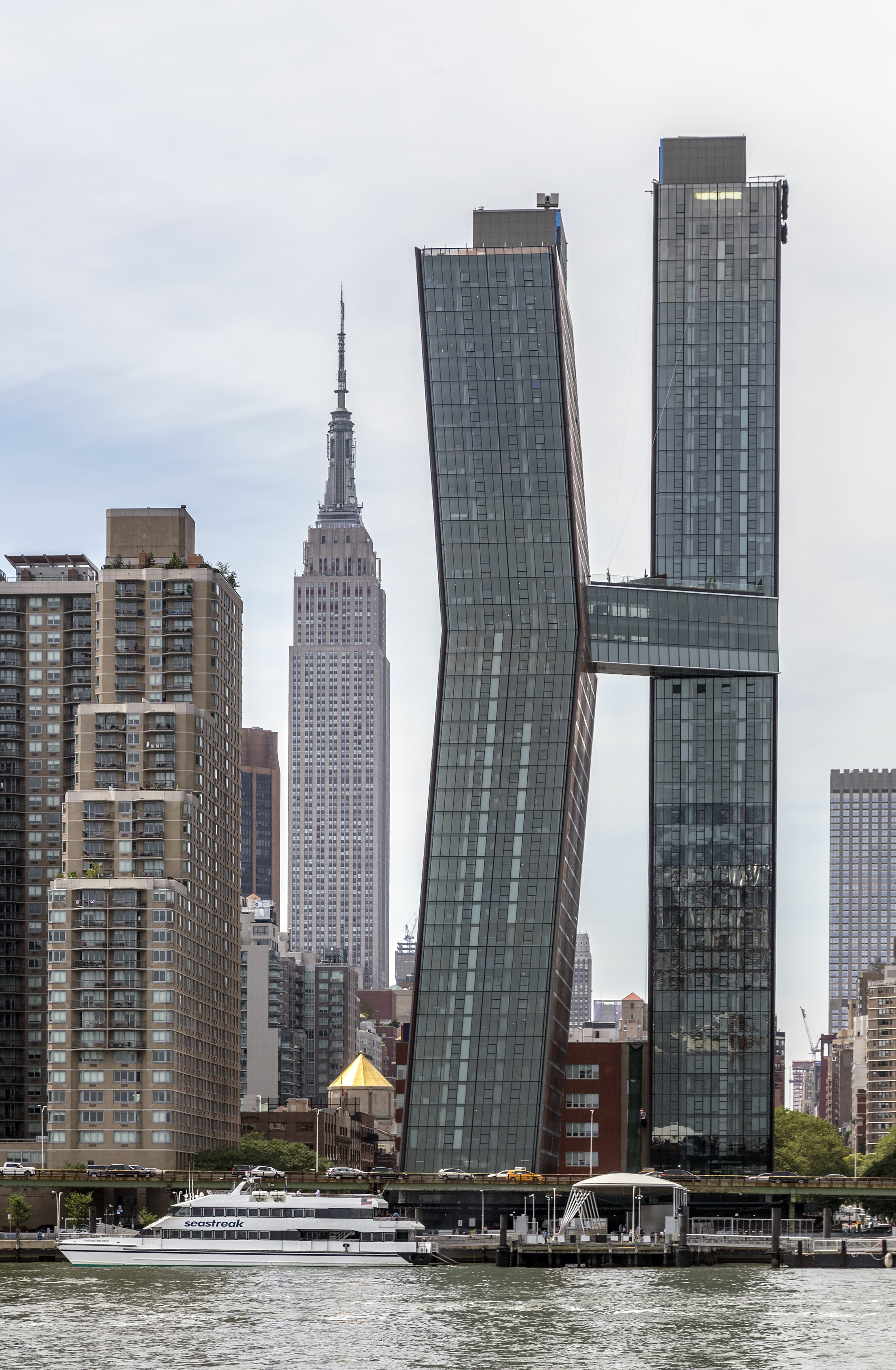 The American Copper Buildings at 626 First Avenue, Manhattan, New York, with the Empire State Building in the background.